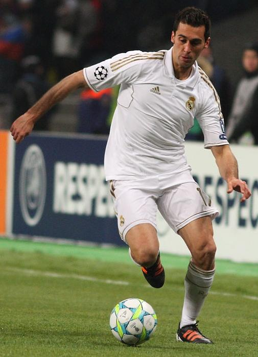 Álvaro Arbeloa playing for Real Madrid in a UEFA Champions League game against CSKA Moscow in Moscow Russia on 21 February 2012.